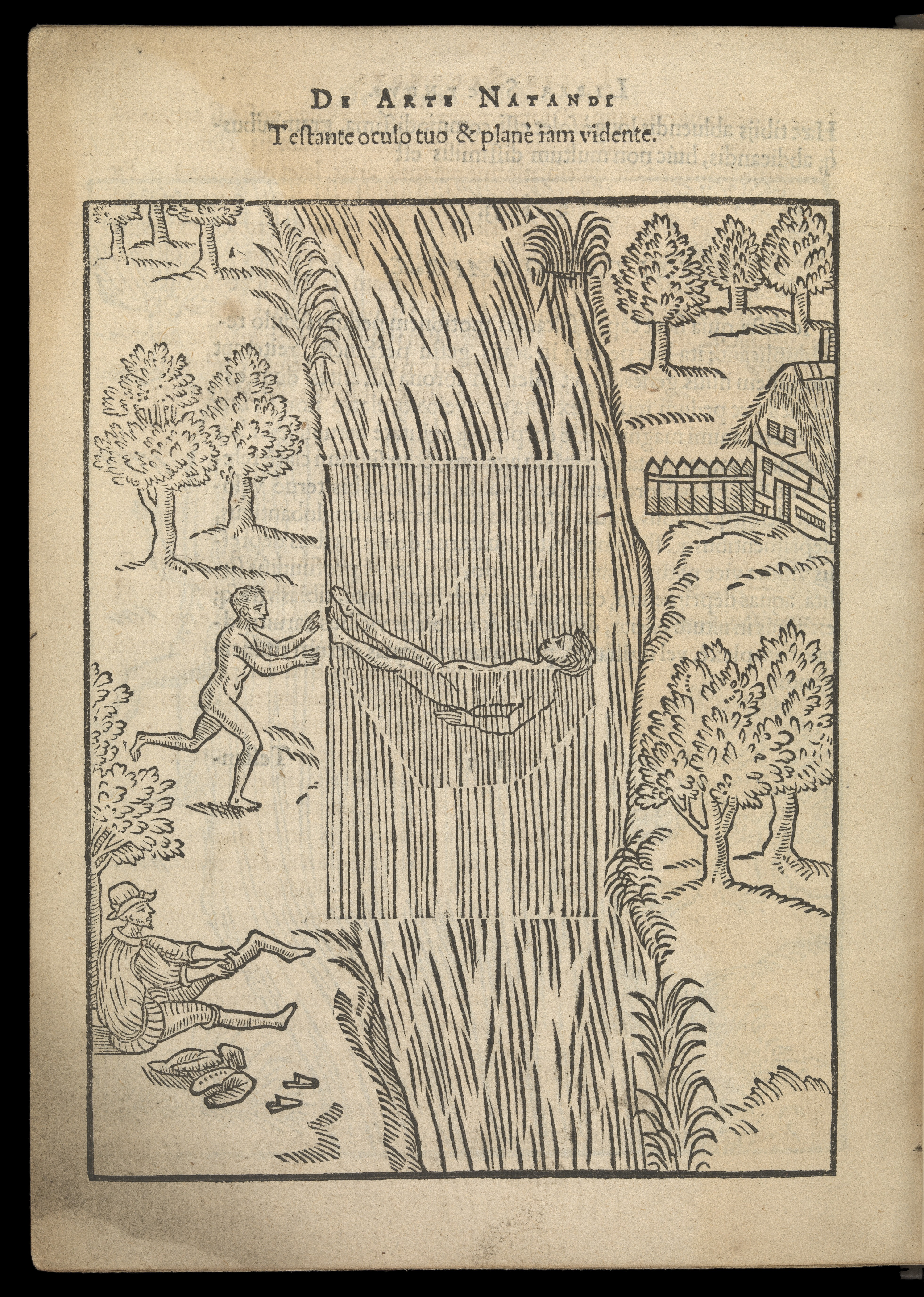 De arte natandi libri duo, quorum prior regulas ipsius artis, posterior vero praxin demonstrationemque continet. Swimming. Rare Books Keywords: Swimming